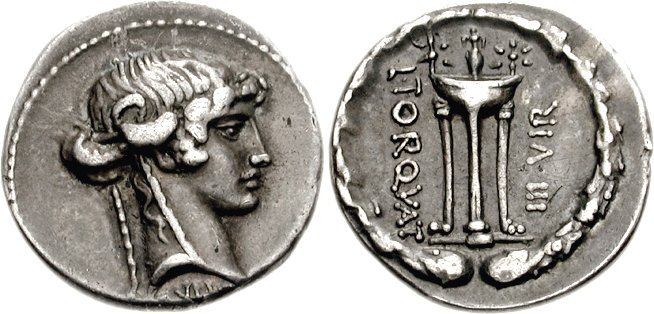 L. Manlius Torquatus 65 BC. AR Denarius (3.70 g, 7h). Rome mint. Head of Sibyl right, wearing ivy wreath within circle of dots / Tripod surmounted by an amphora; two stars above; all within torque. Crawford 411/1b; Sydenham 835; Manlia 12. VF, toned, light scratches on reverse under tone. Rare.